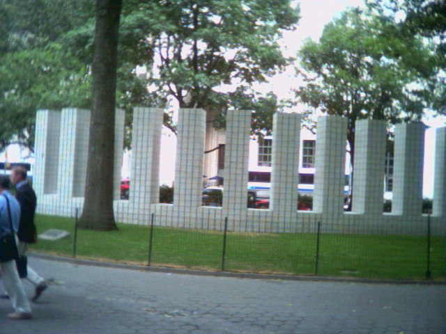 Sol de Witt's Circle with Towers in Madison Square Park.